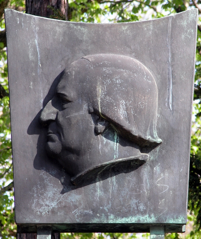 Brunswick, Germany: Monument from 1960 of Franz Abt.